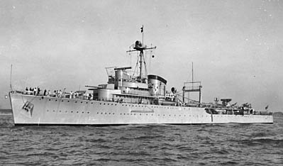 Dutch Tromp-class cruiser Tromp